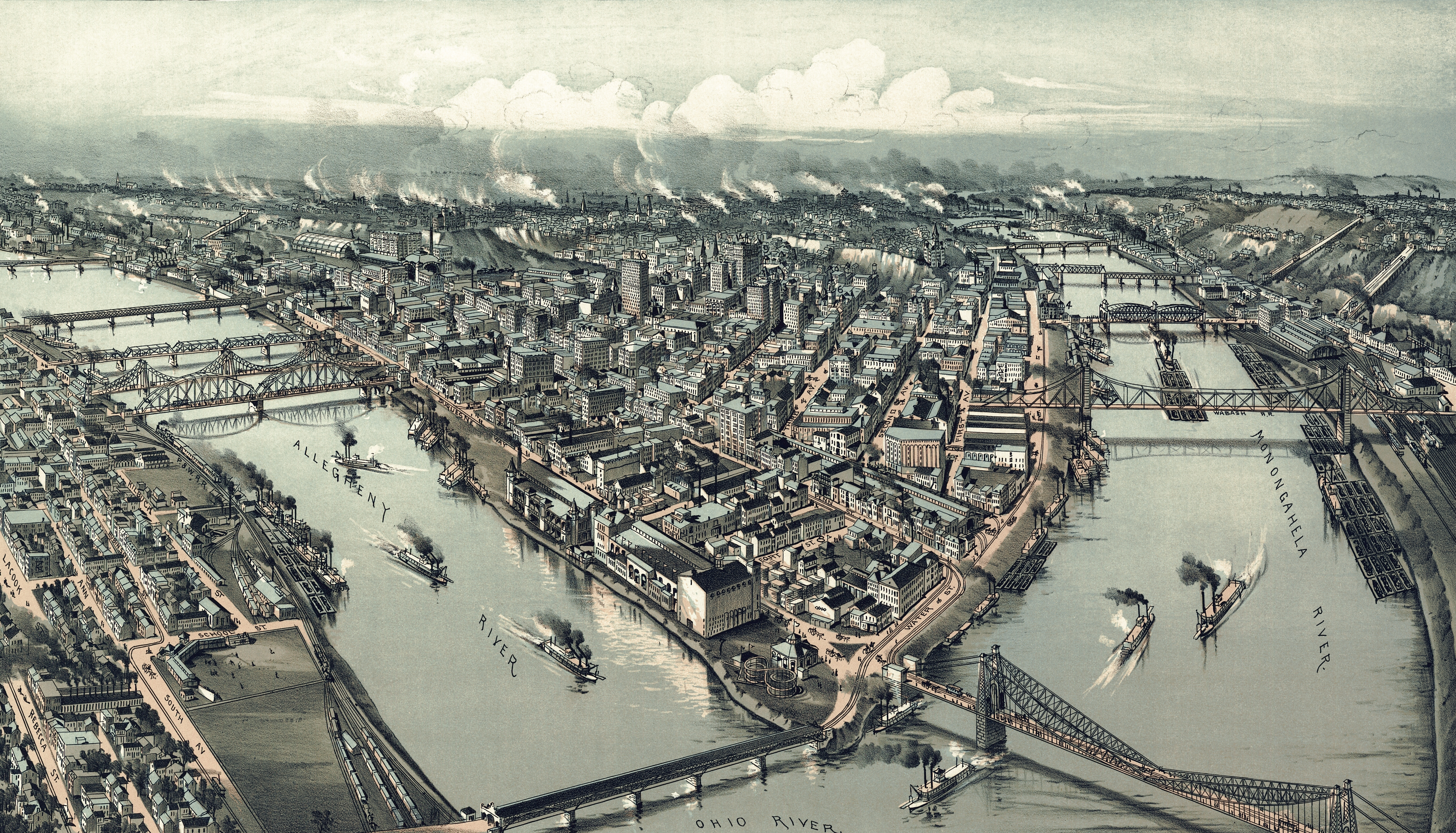 Three colour (blue, yellow-orange, black) lithographic print showing Pittsburgh in 1902.